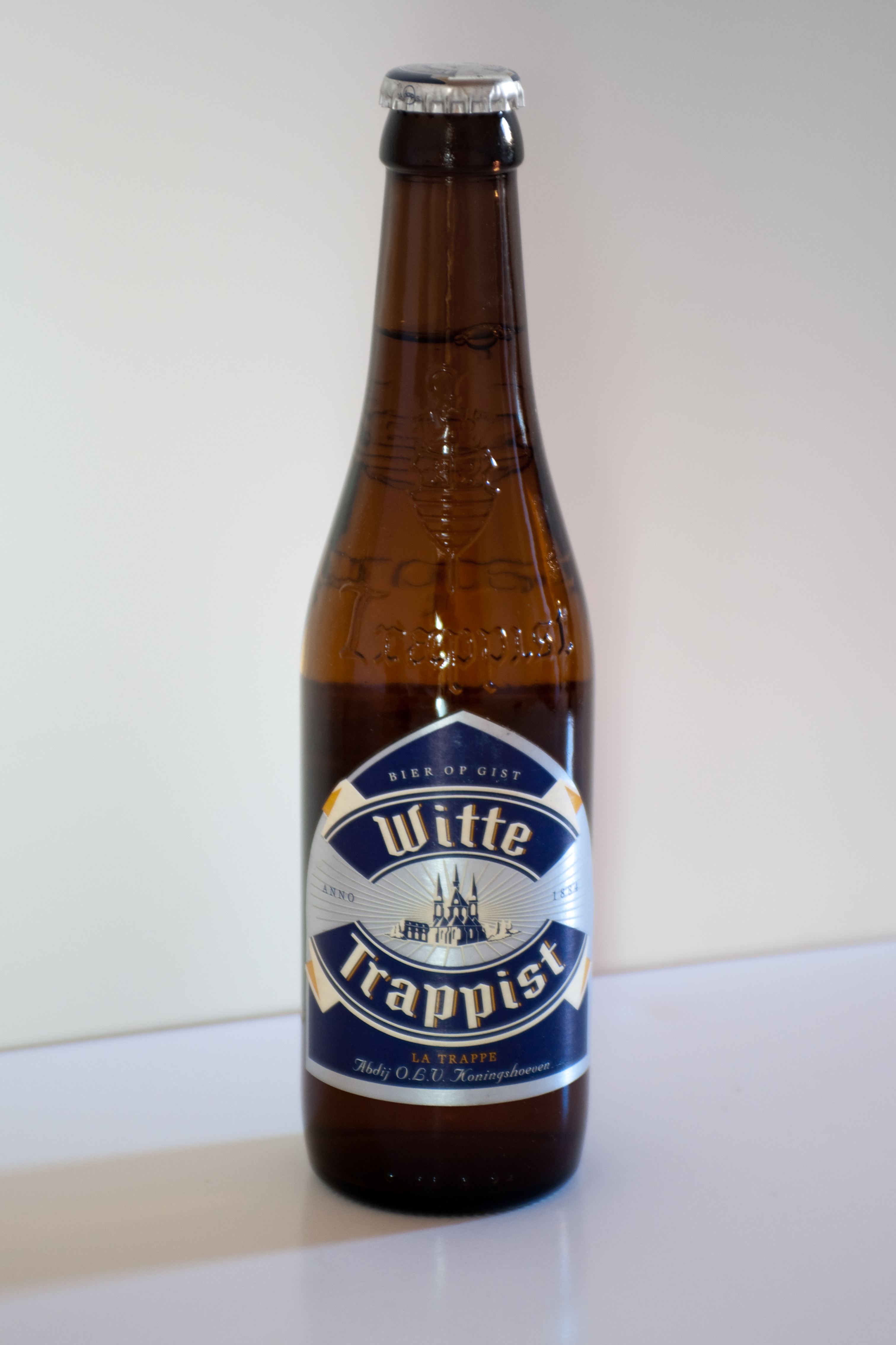 Witte Trappist beer.